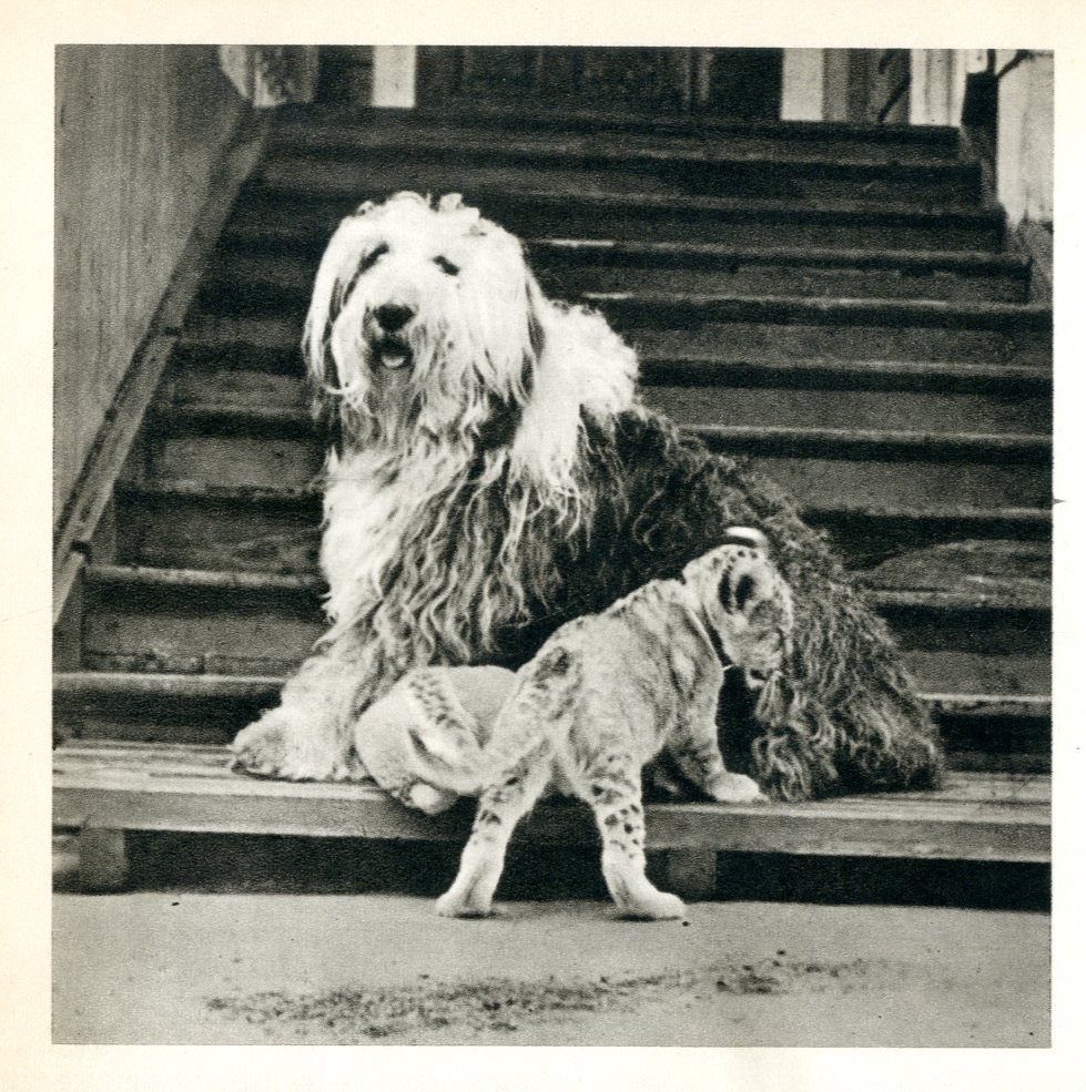 Old English Sheepdog named Blue Shepherd and a lion in her foster care at Maria Åkerblom’s kennel in Villa Toivola, Meilahti, Helsinki.